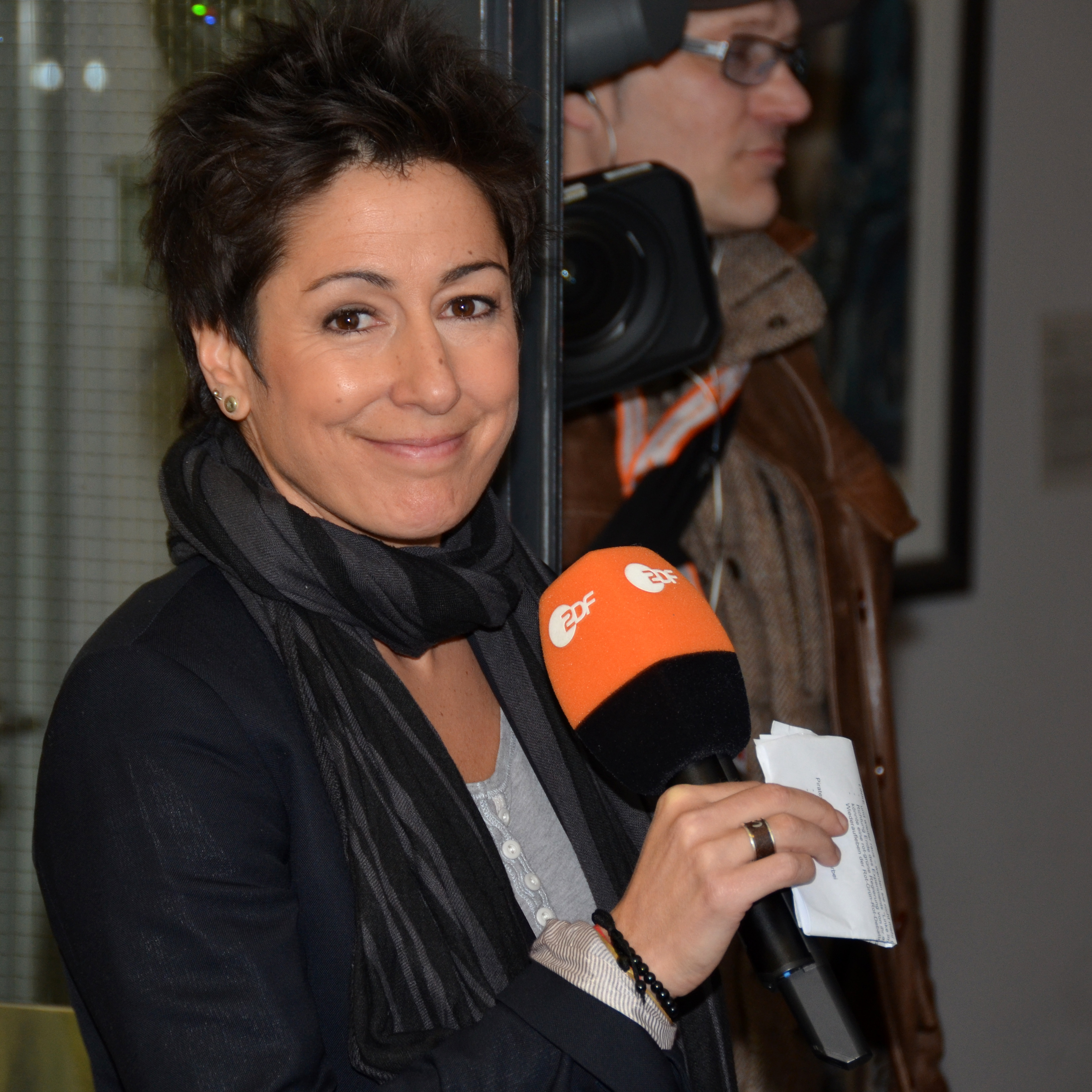 Wikipedia im Landtag – Niedersachsen 20. Januar 2013 in Hannover am WahlabendDieses Bild entstand während der Landtagswahl in Niedersachsen 2013 im Landtag Hannover. This work is free and may be used by anyone for any purpose. If you wish to use this content, you do not need to request permission as long as you follow any licensing requirements mentioned on this page.